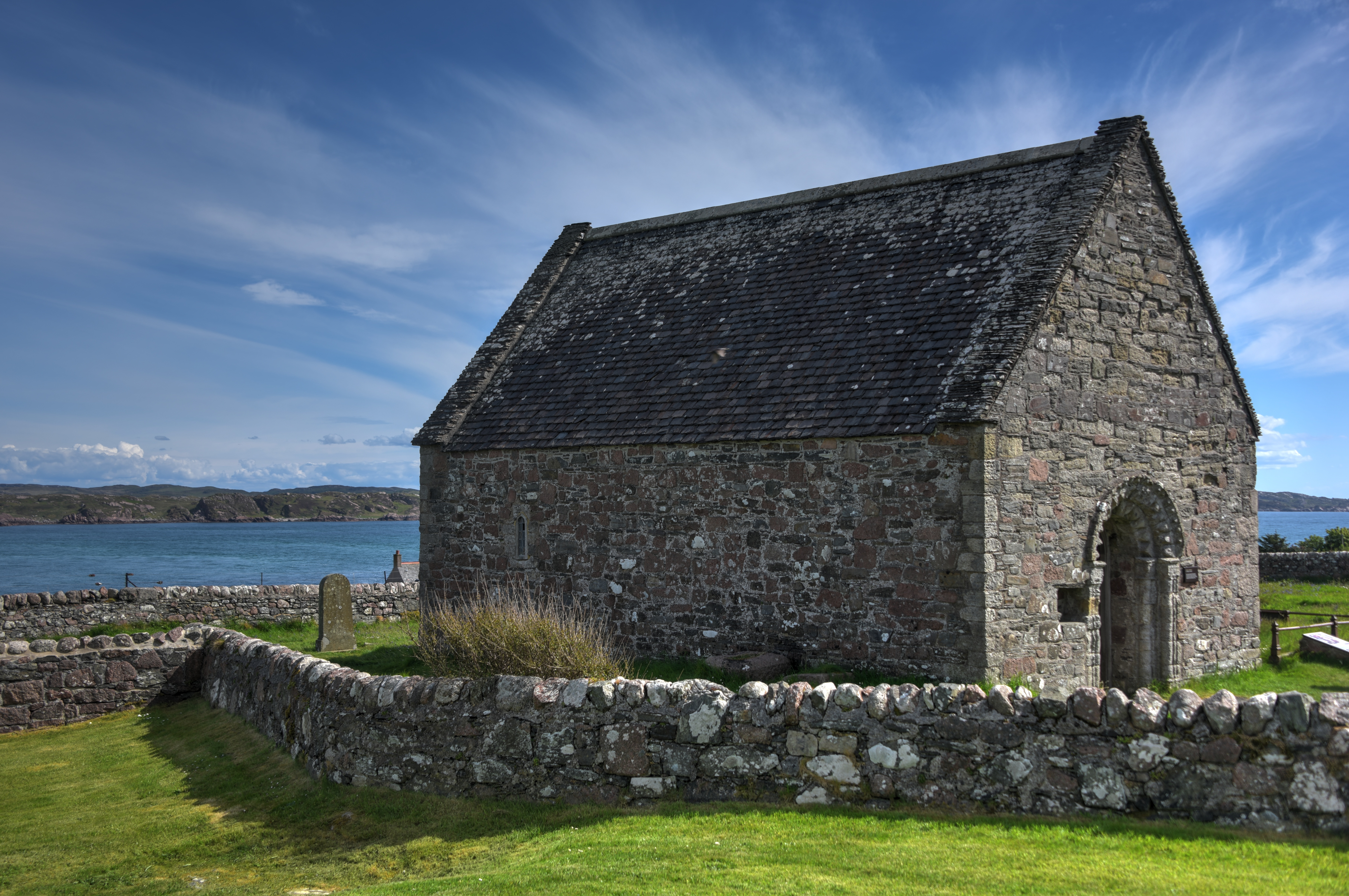 A small medieval chapel near Iona Abbey.